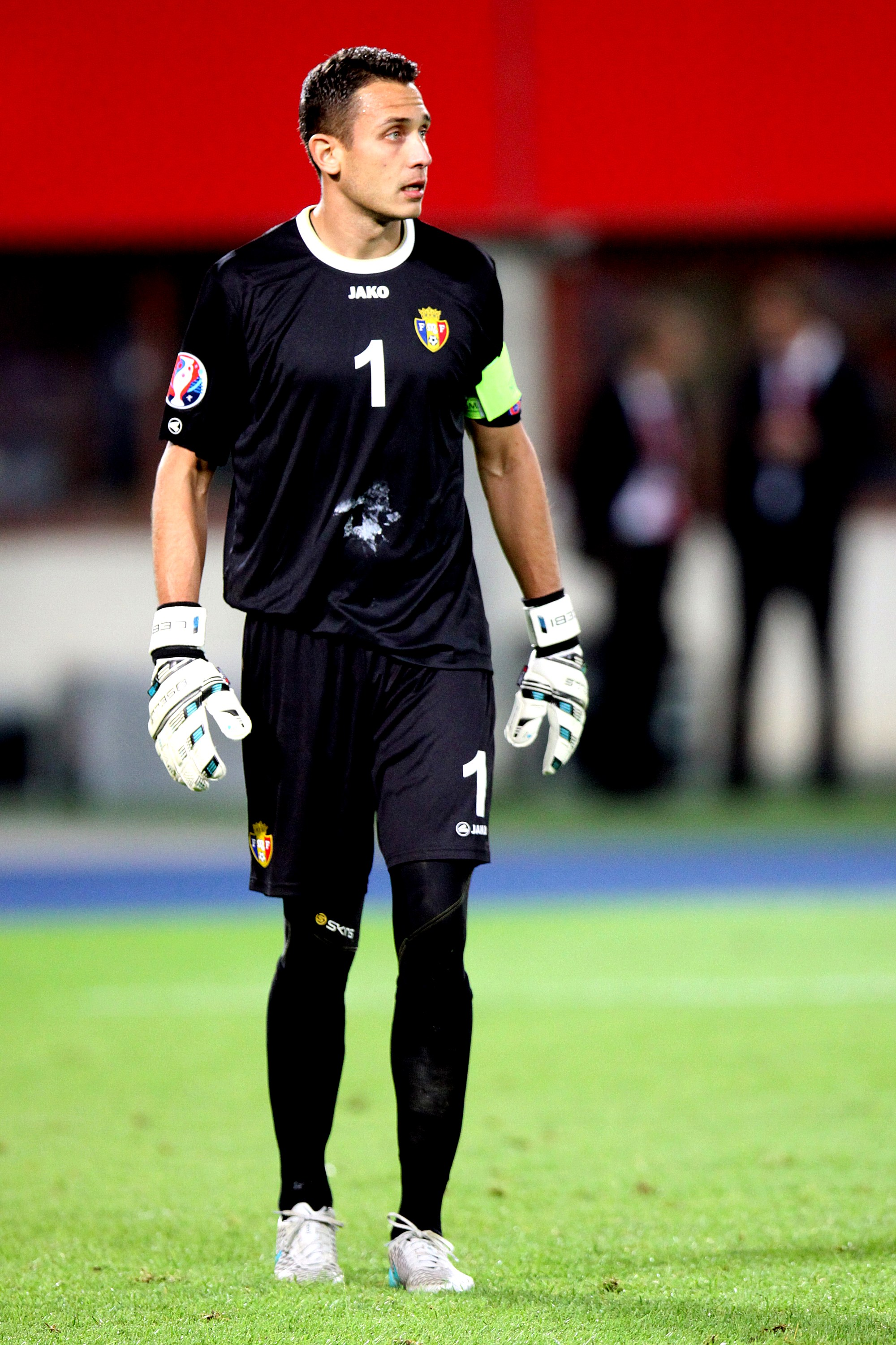 UEFA Euro 2016 qualifying, Group G – Austria national football team (red shirts) vs. Moldova national football team (blue shirts) on 2015-09-05 in Ernst-Happel-Stadion, Vienna: The photo shows Ilie Cebanu